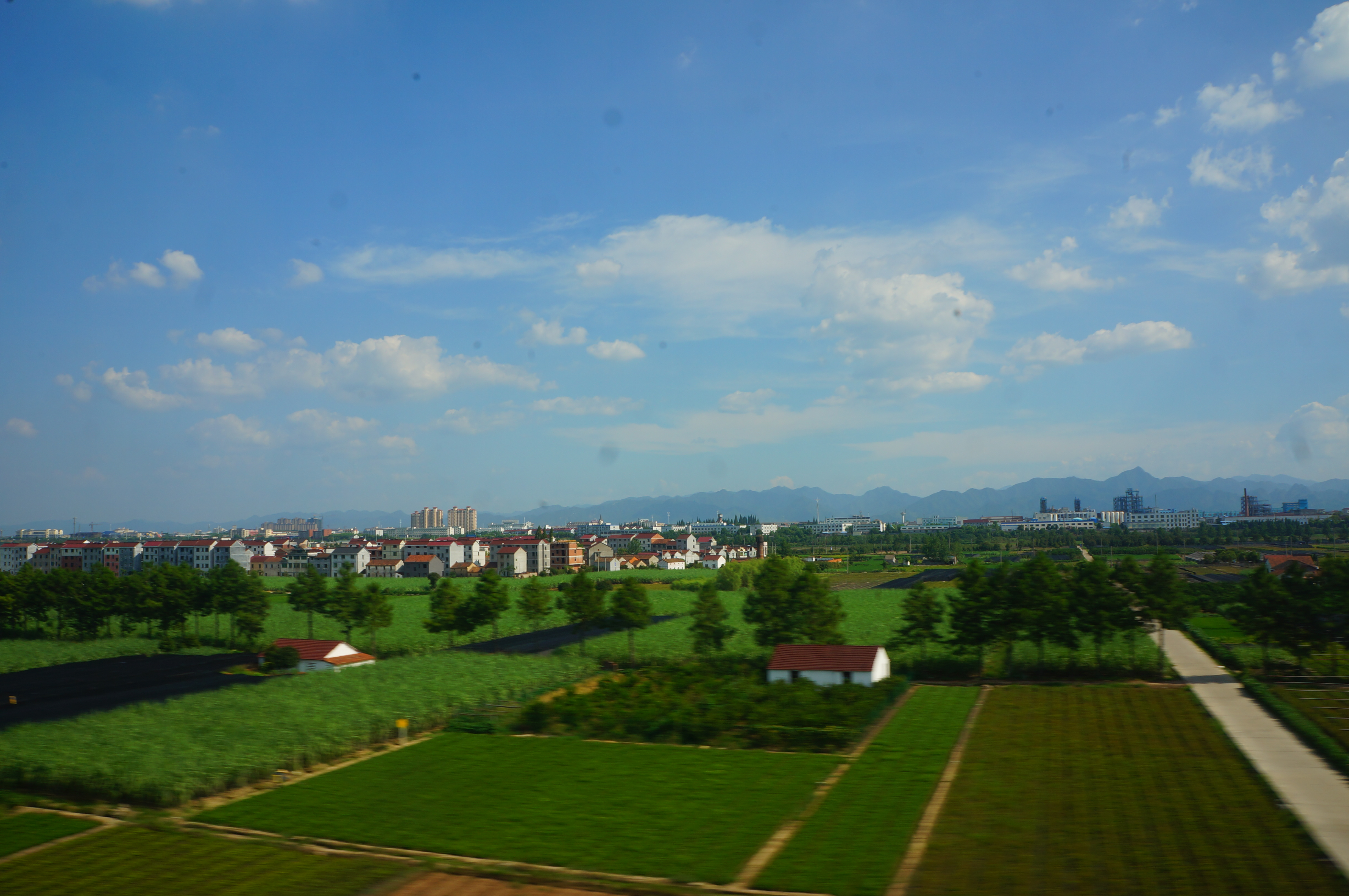 201608 Tangxi Overview